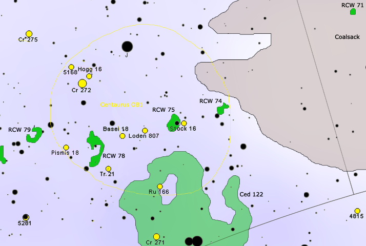 Detailed map of the Centaurus region of southern Milky Way; the map shows open clusters (in yellow) and the ionized region (in green). Dark cloud are plotted in grey.